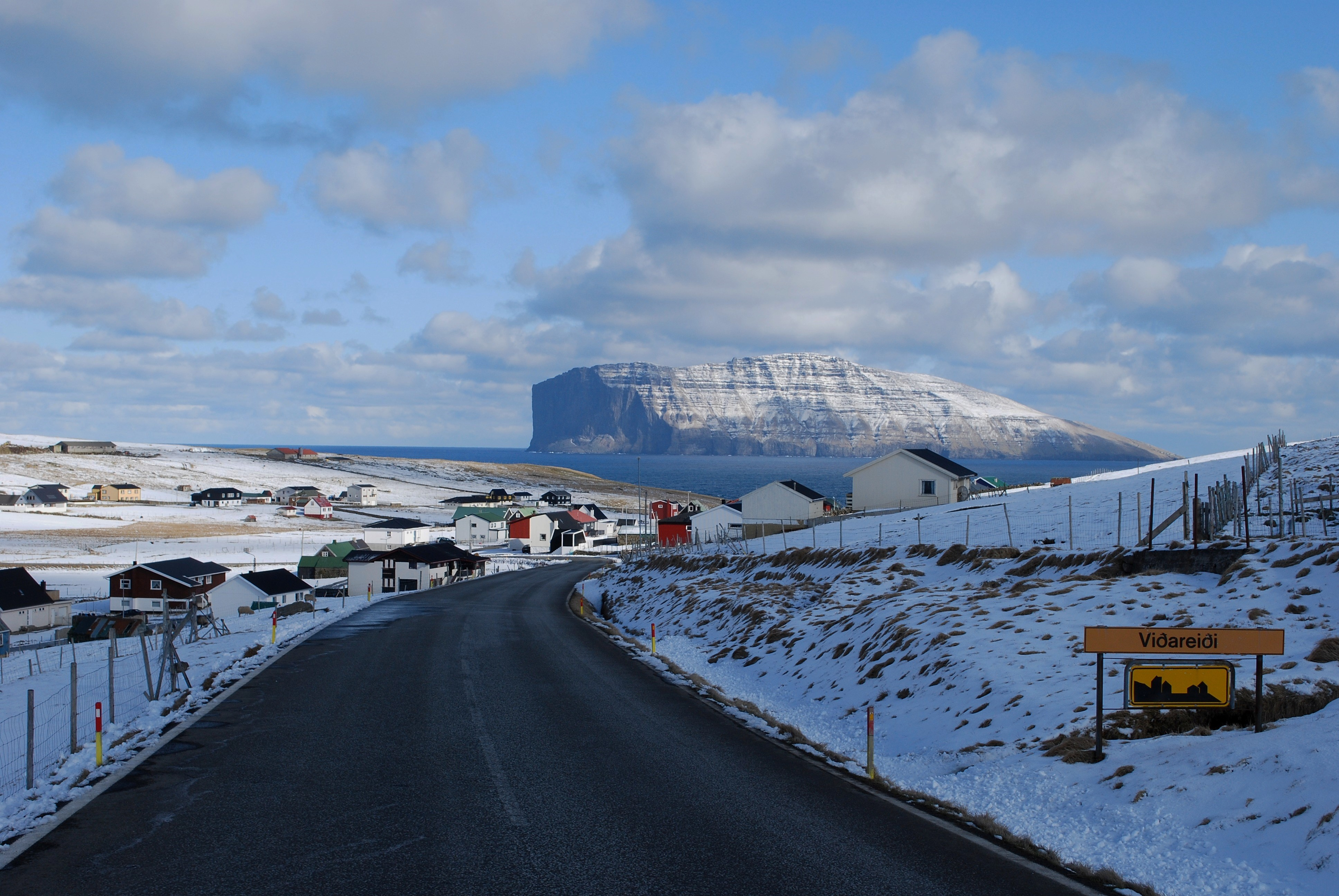 Vídareiði and Fugloy